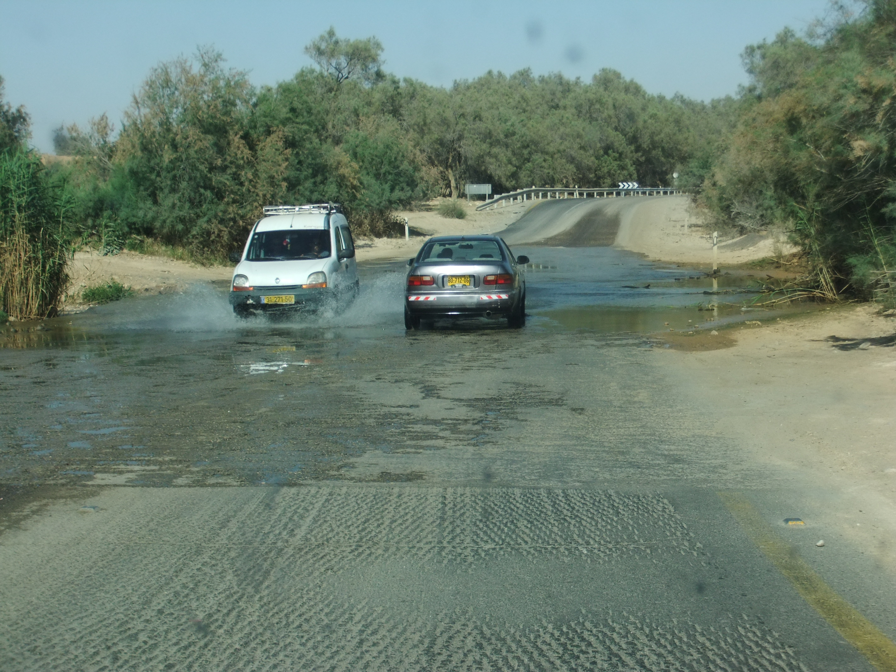 HaBesor Stream ford near Tze'elim